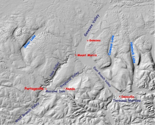 Genesee near Mt Morris showing glacial effects Image is Shaded Relief Imagery, derived from the US Geological Survey National Elevation Dataset, modified by Pollinator USGS-authored or produced data and information are in the public domain.